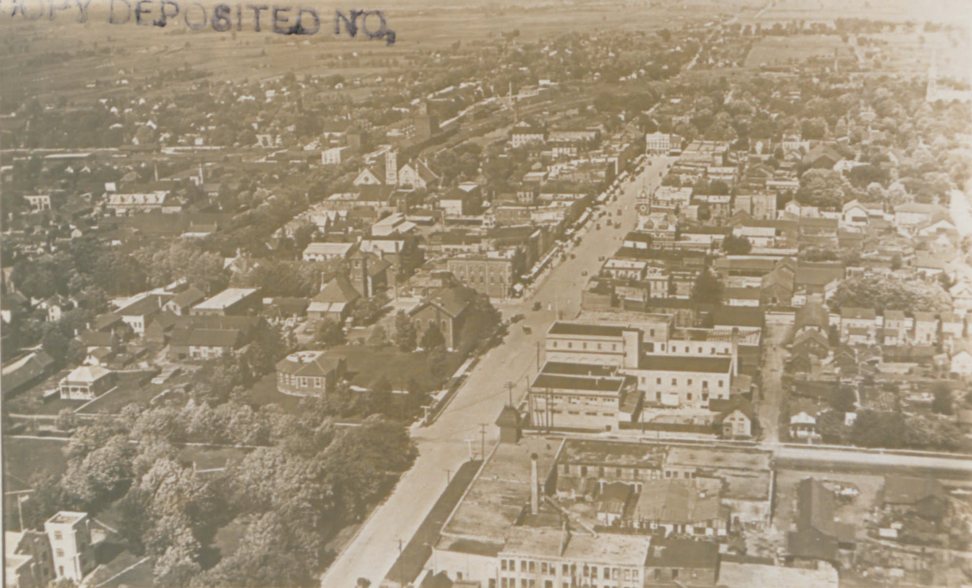 Original caption: “Lindsay Ontario from the Air.”